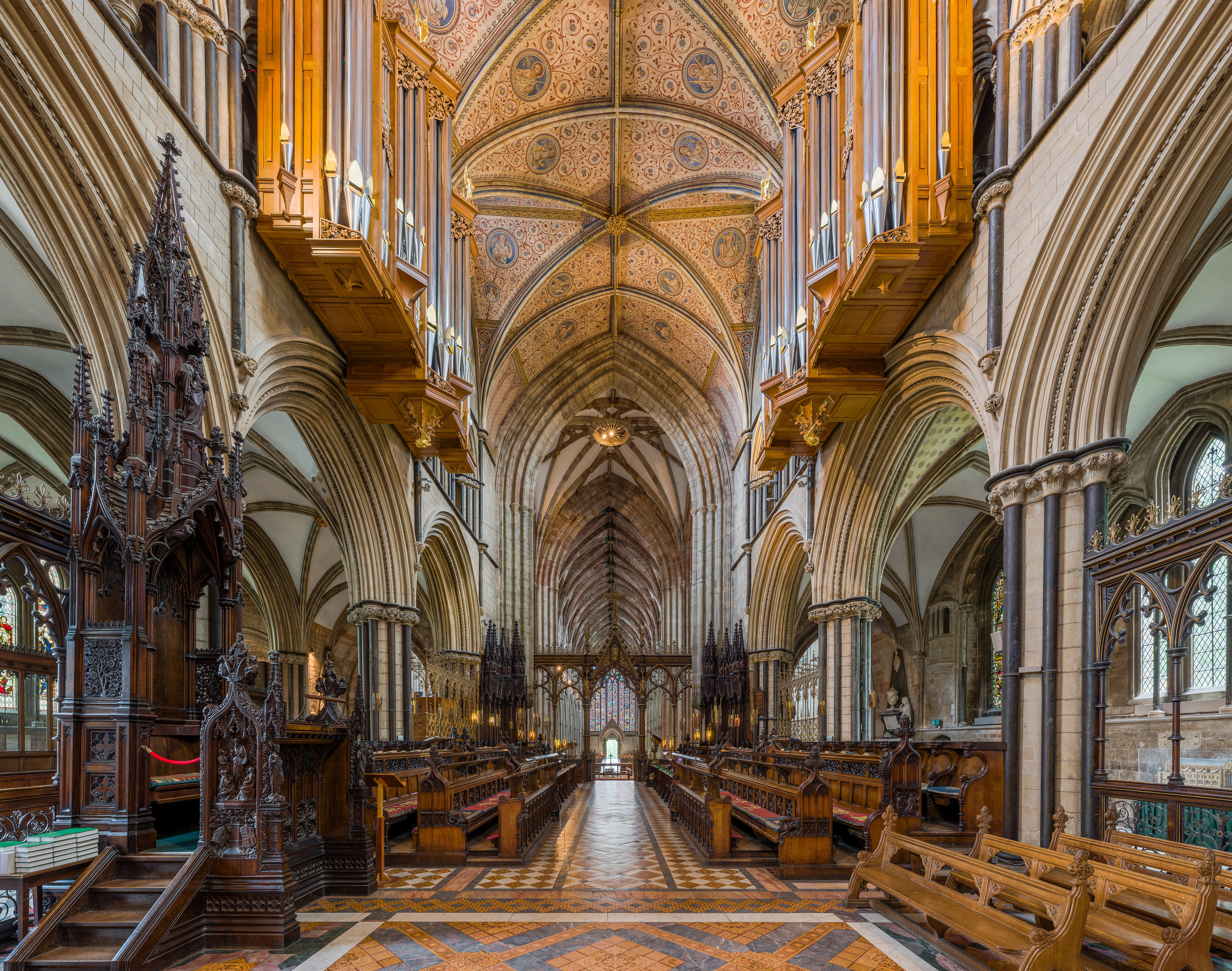 The choir of Worcester Cathedral in Worcestershire, England.